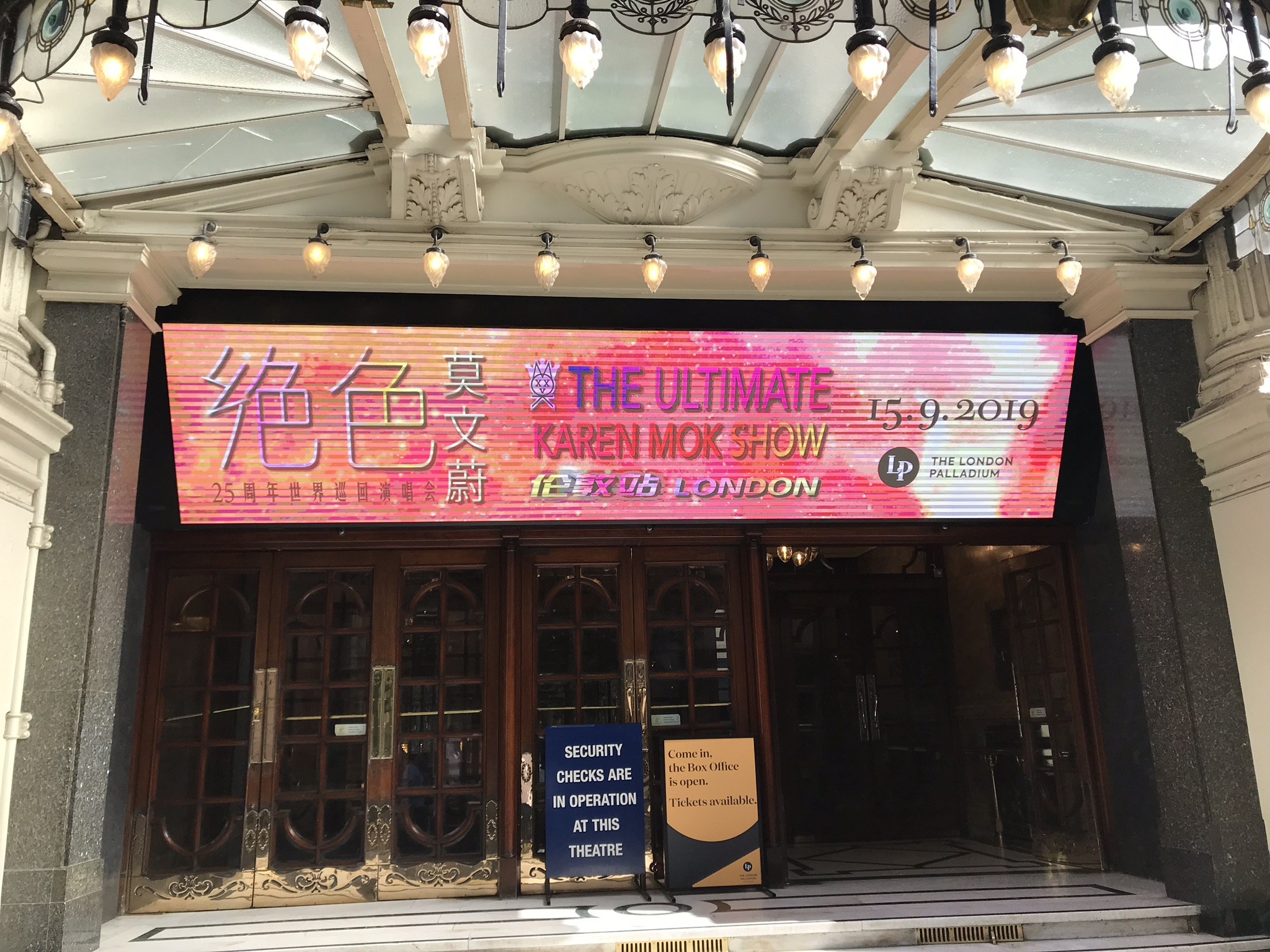 Accouncement for in door pop concert